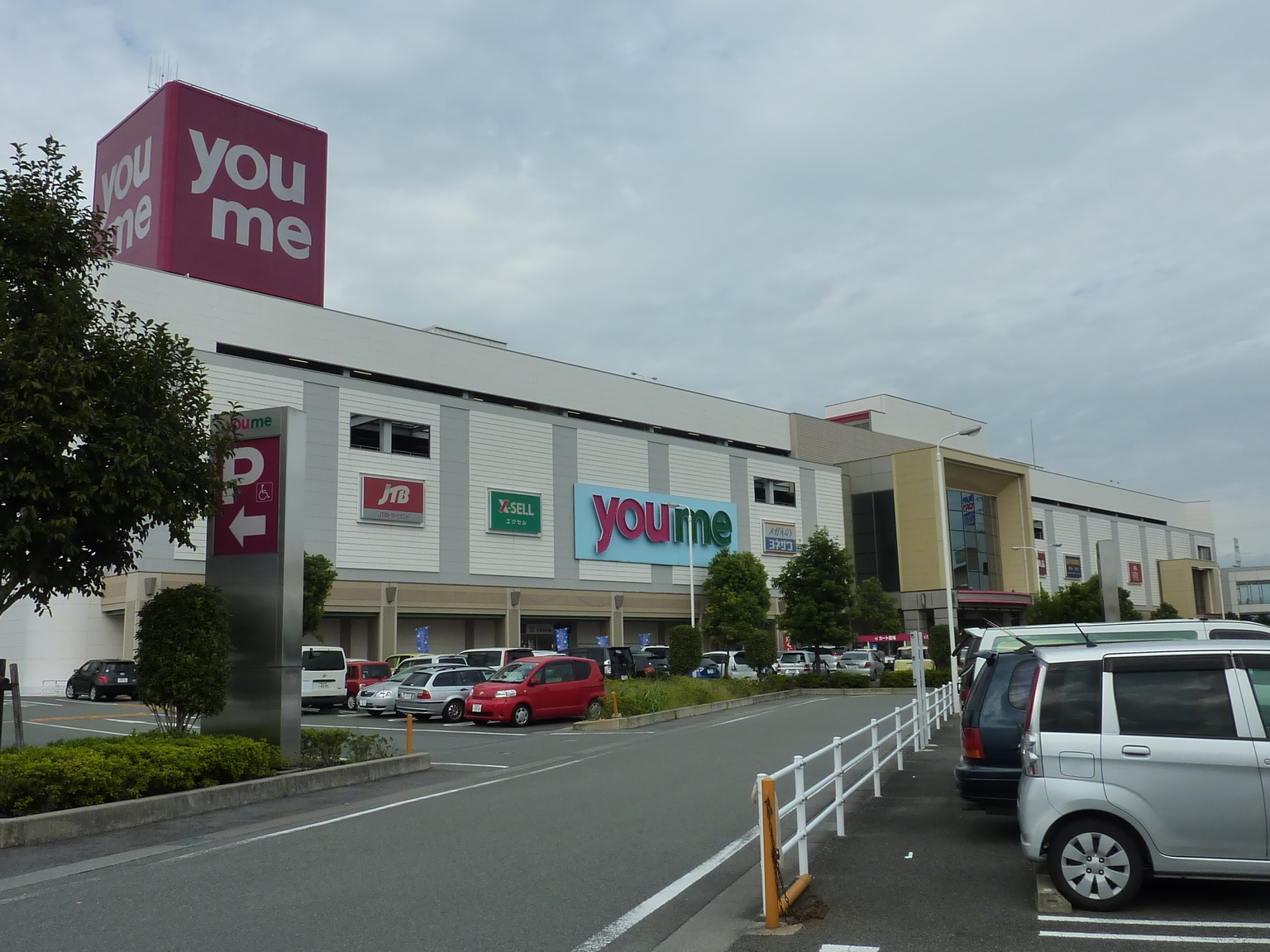 You me Town Hikari-no-Mori Shopping Center (Kikuyo Town, Kumamoto, Japan)